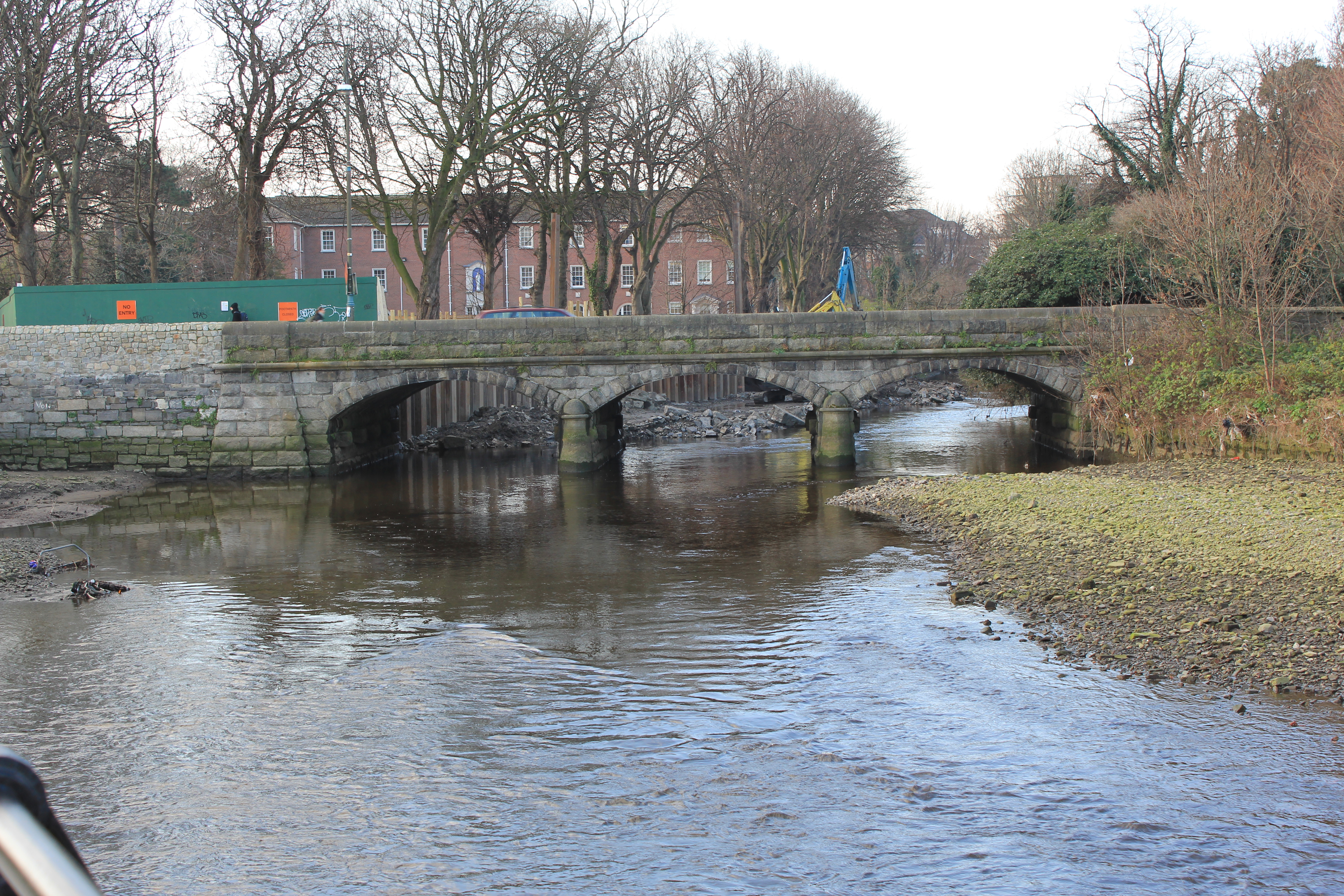 New Bridge (also called Lansdowne Bridge), crossing the Dodder.